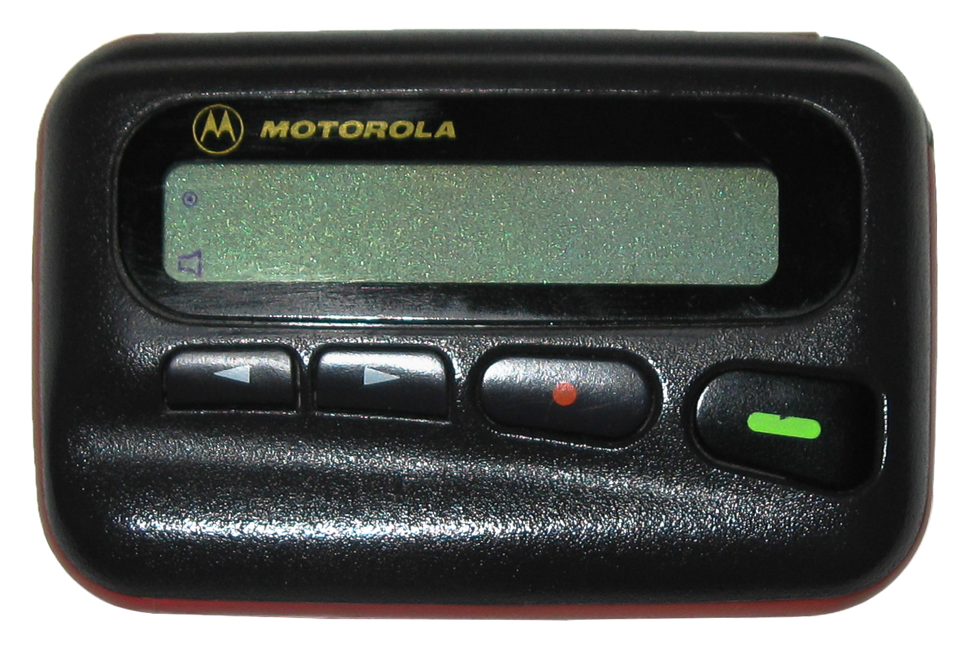 Digital pager Motorola LX2 plus